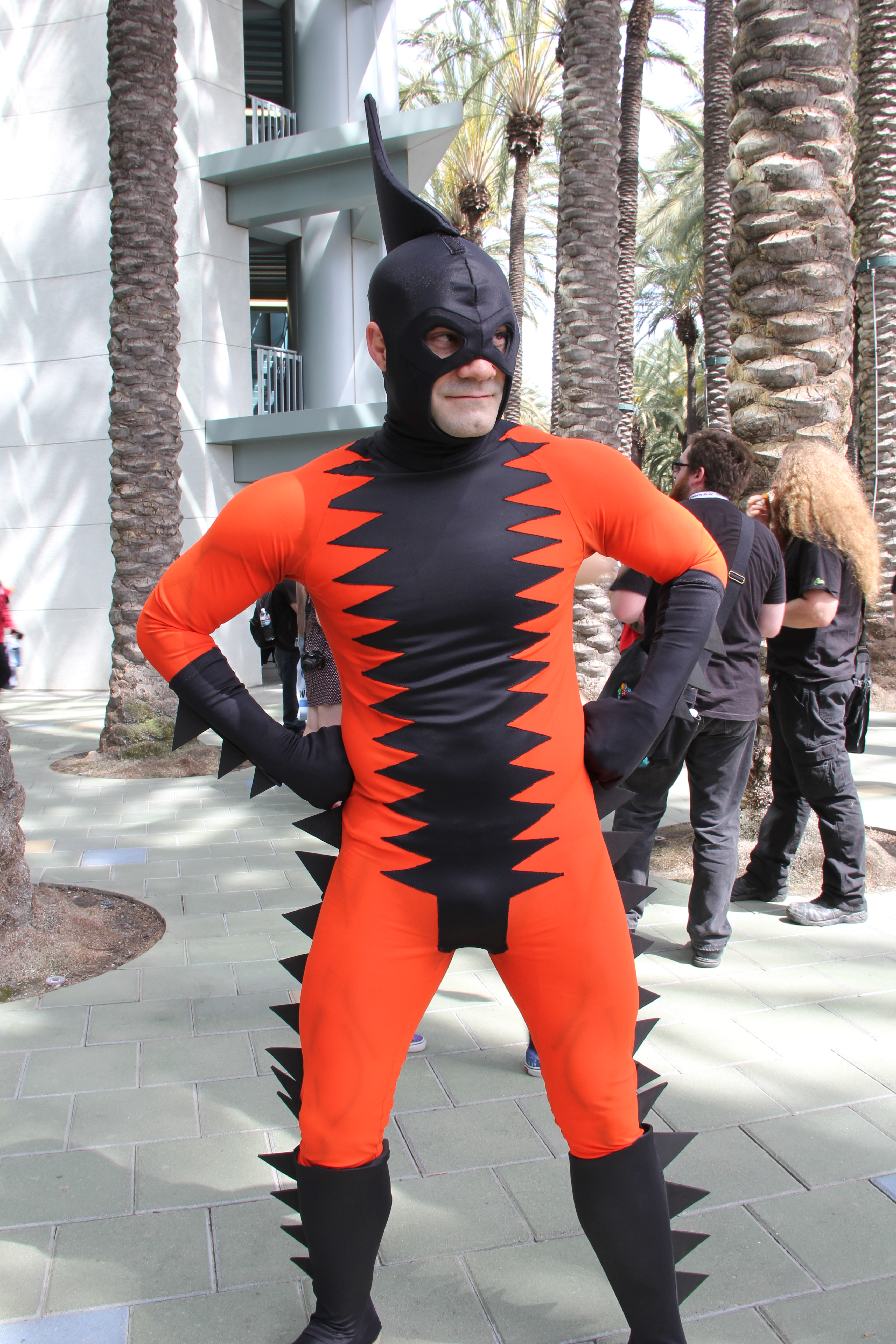 A cosplay of Tiger Shark from the Marvel Universe.